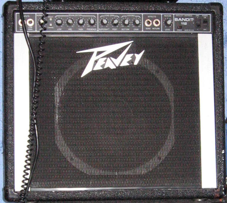 Peavey Bandit 112 amplifier. Cropped from Image:3AmpStack.jpg.